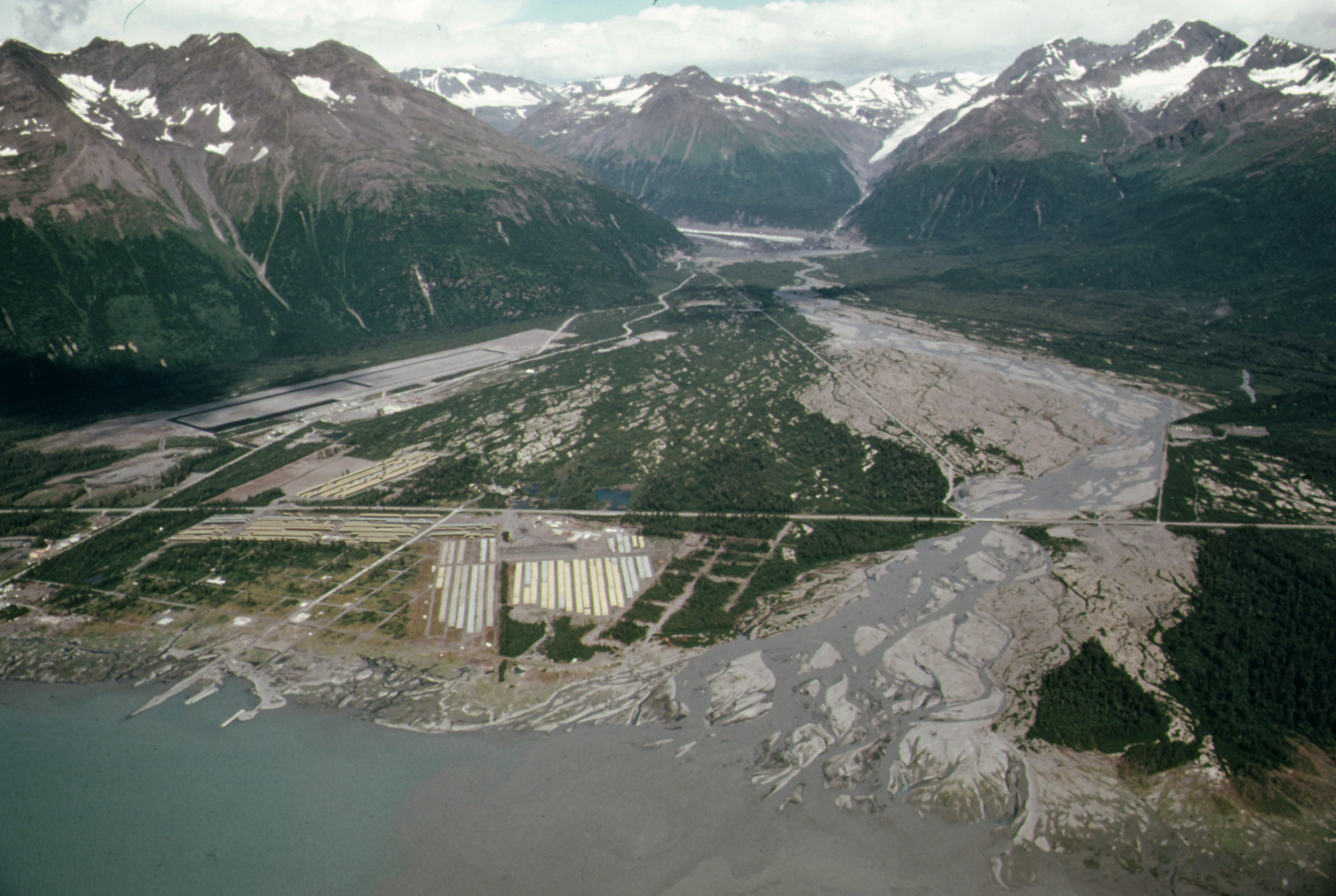 The following is the author's description of the photograph quoted directly from the photograph's Flickr page."Original Caption: View Northeast Across Valdez River Floodplain Showing Pipe Storage Yard, Center Foreground, Which Holds 418 Miles of Pipe Yards at Fairbanks and Prudhoe Bay Hold 238 and 168 Miles of Pipe Respectively. The Community's Airport, Paved in the Summer of 1974 Sits at the Base of West Peak (Elevation 5,255 Feet). Mile 788, near the Alaska Pipeline Route 08/1974U.S. National Archives%u2019 Local Identifier: 412-DA-13233Photographer: Cowals, Dennis, 1945-Subjects:Alaska (United States) stateEnvironmental Protection AgencyProject DOCUMERICAPersistent URL: Repository: Still Picture Records Section, Special Media Archives Services Division (NWCS-S), National Archives at College Park, 8601 Adelphi Road, College Park, MD, 20740-6001. For information about ordering reproductions of photographs held by the Still Picture Unit, visit: may be ordered via an independent vendor. NARA maintains a list of vendors at Access Restrictions: UnrestrictedUse Restrictions: Unrestricted "